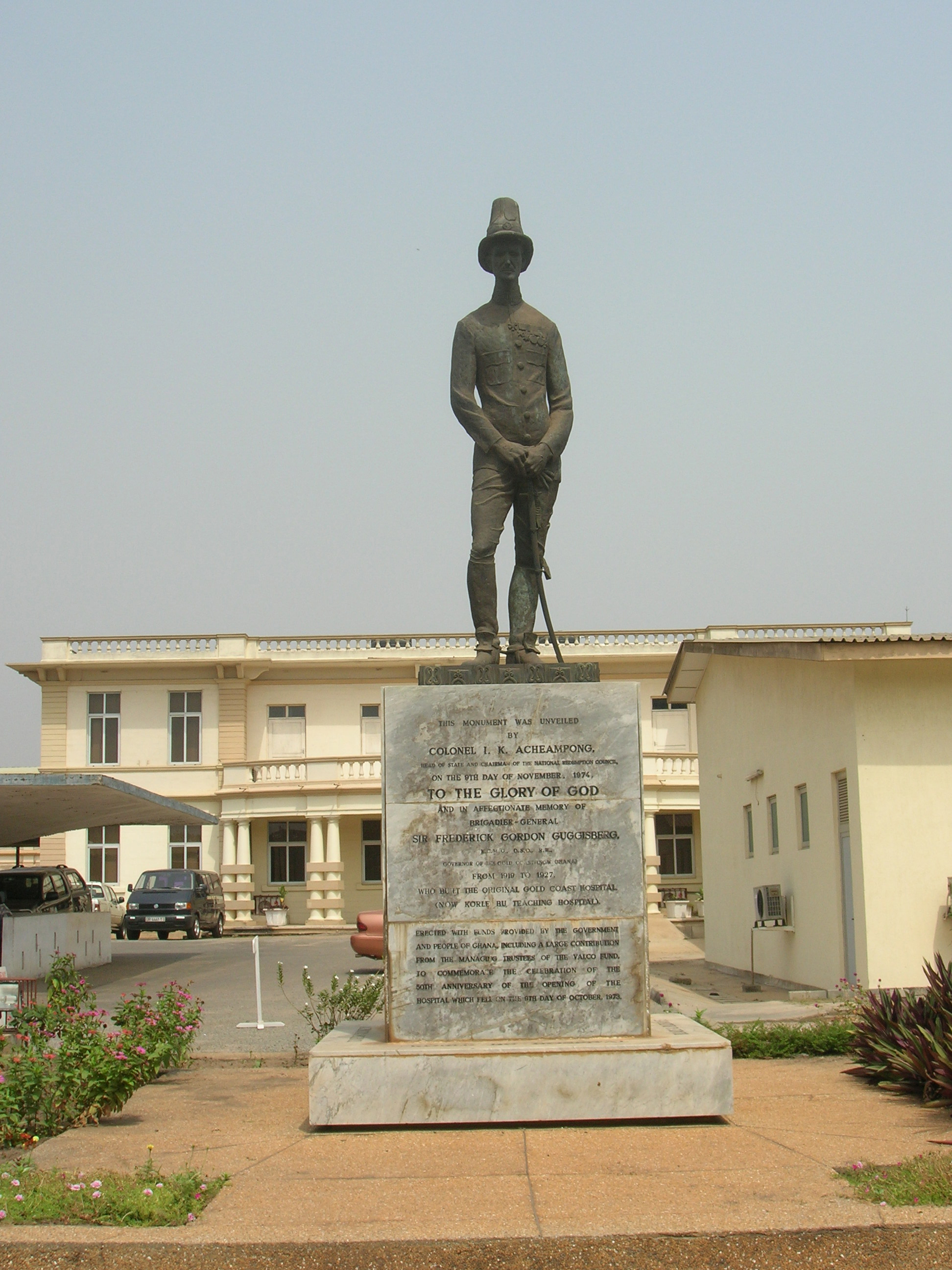 Governor Sir Frederick Gordon Guggisberg statue at Korle Bu Hospital, Accra, inaugurated in 1974 on the occasion of the 50th anniversary of the founding of the hospital